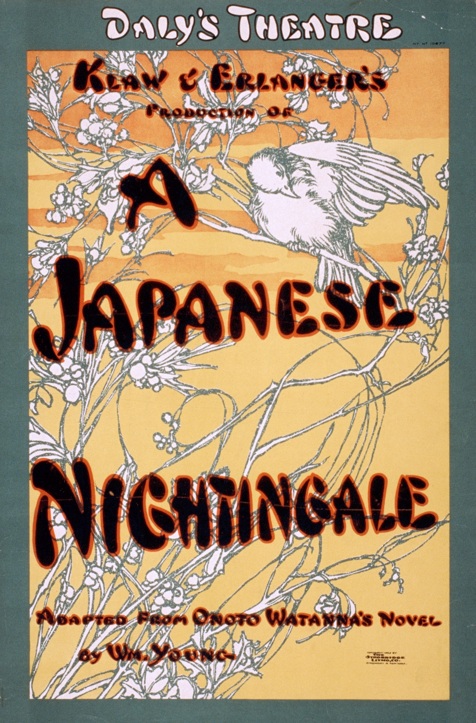 Color lithograph poster for Klaw & Erlanger's production of "A Japanese nightingale", adapted from the novel by Winnifred Eaton (a.k.a. Onoto Watanna, 1875-1954) by William Young (1847-1920), at the Daly's Theatre, New York.